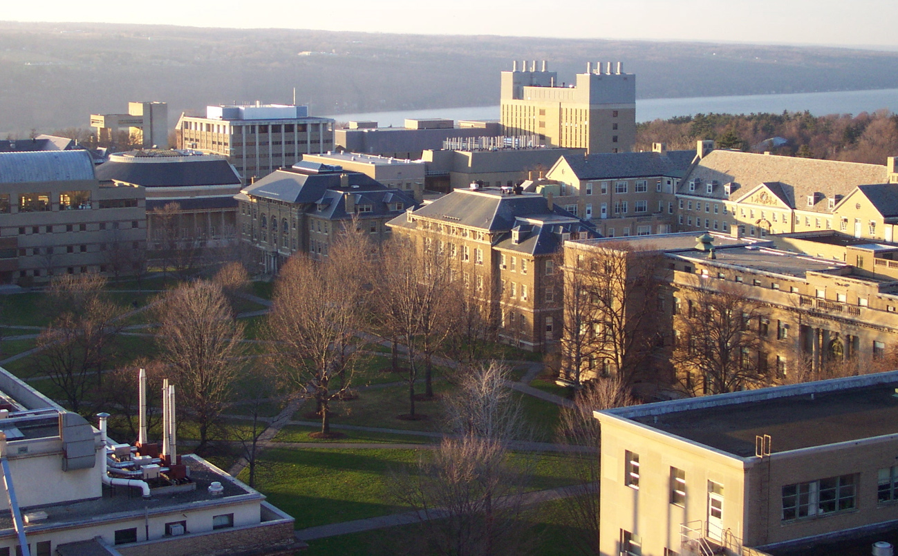 Cornell University Ag Quad, taken from Bradfield Hall.